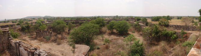 Fort wall Of Rajapet fort